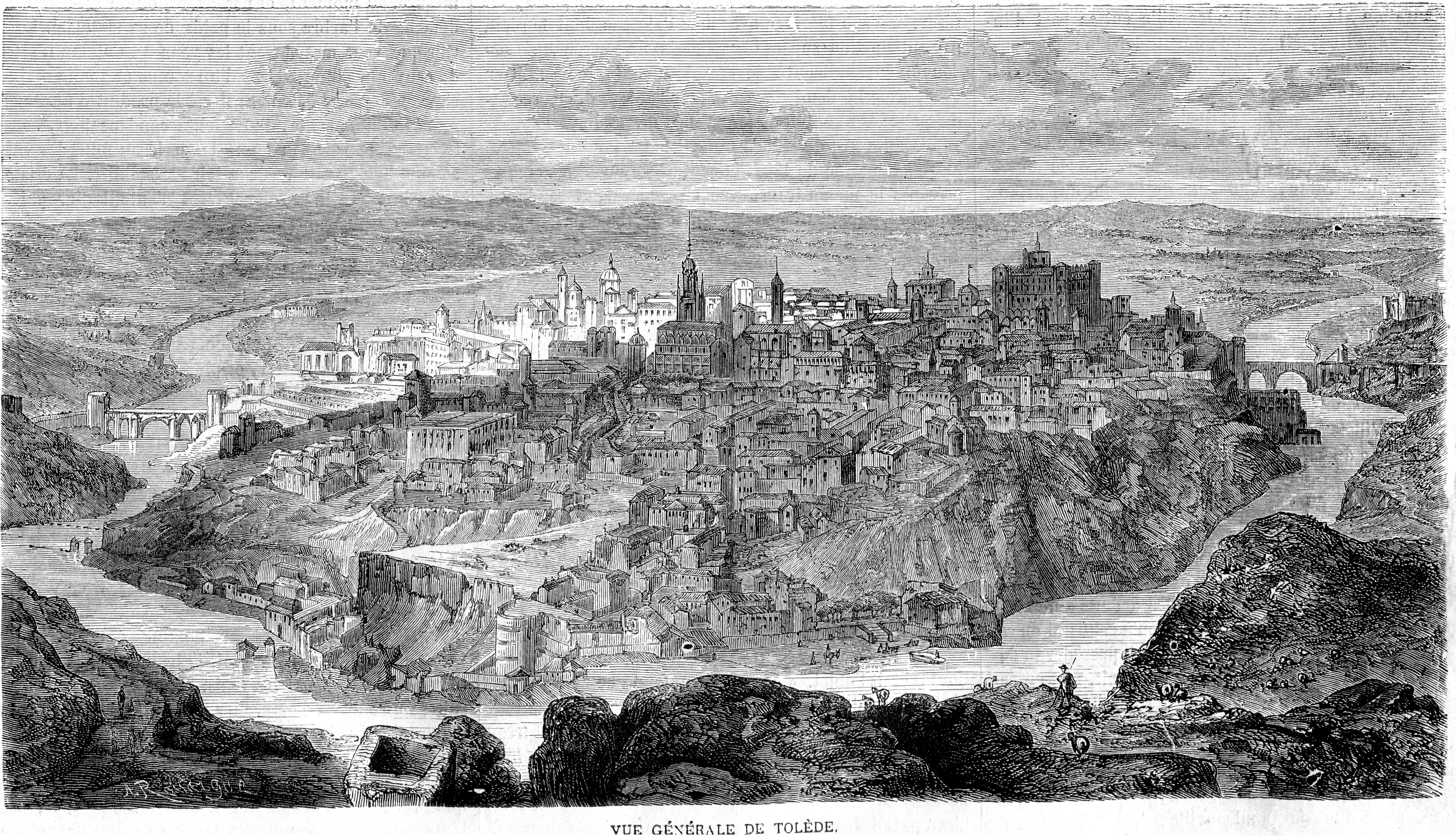 L'illustration 1862 gravure Vue générale de Tolède